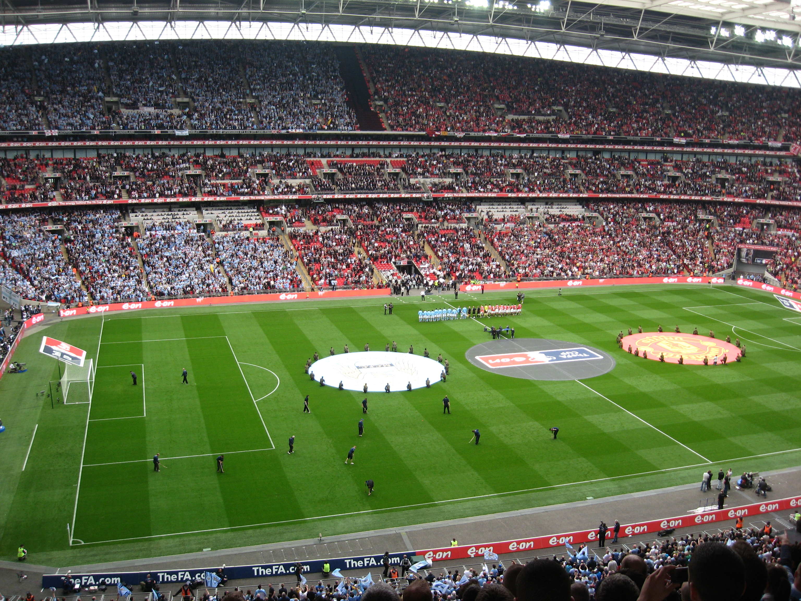 The teams of Manchester City F.C. and Manchester United F.C. line up prior to kick-off in the semi-final of the 2011 FA Cup at Wembley Stadium.